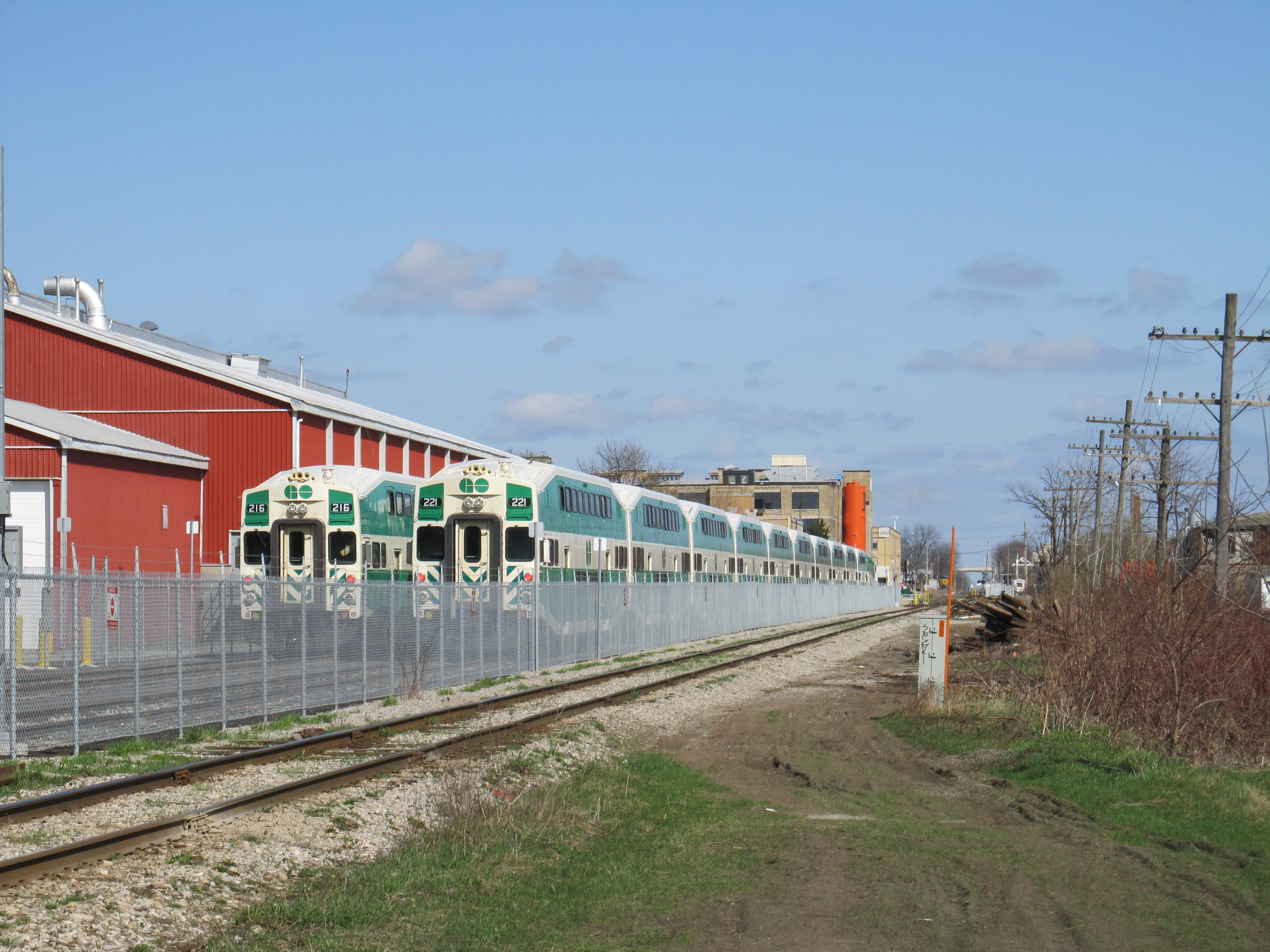 GO trains in Kitchener parked on the weekend in the layovver facility just to the west of the Kitchener GO station.